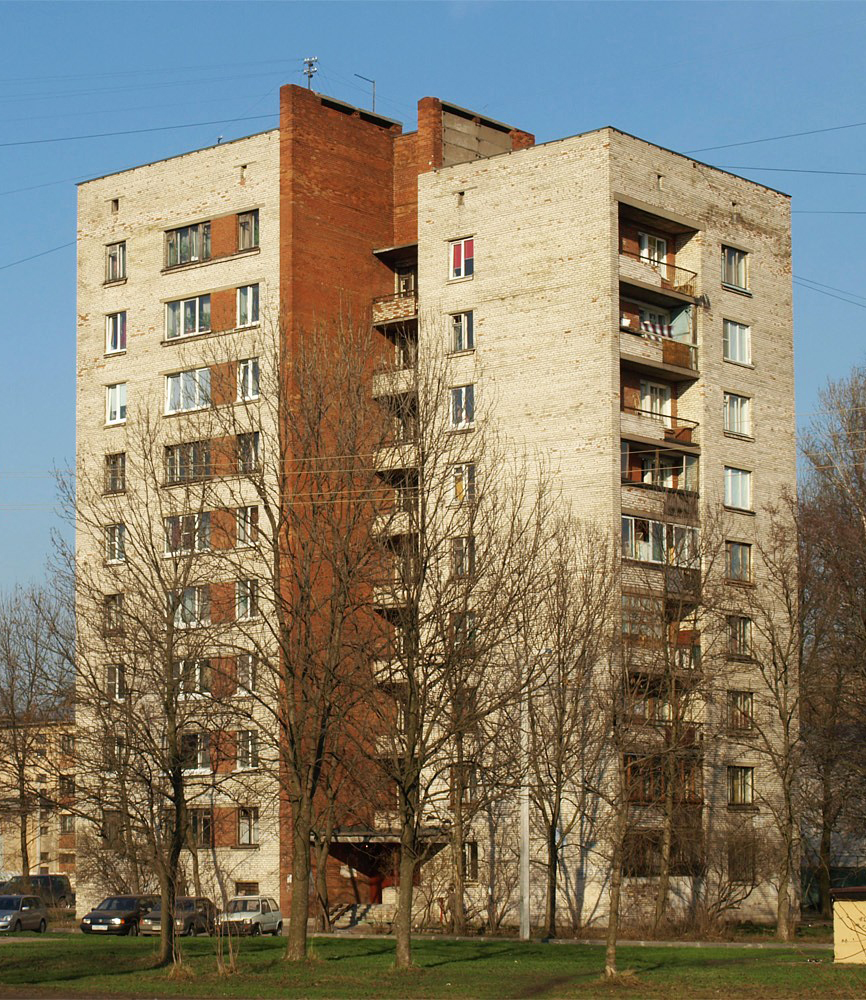 Nadyozhin house. Saint Petersburg